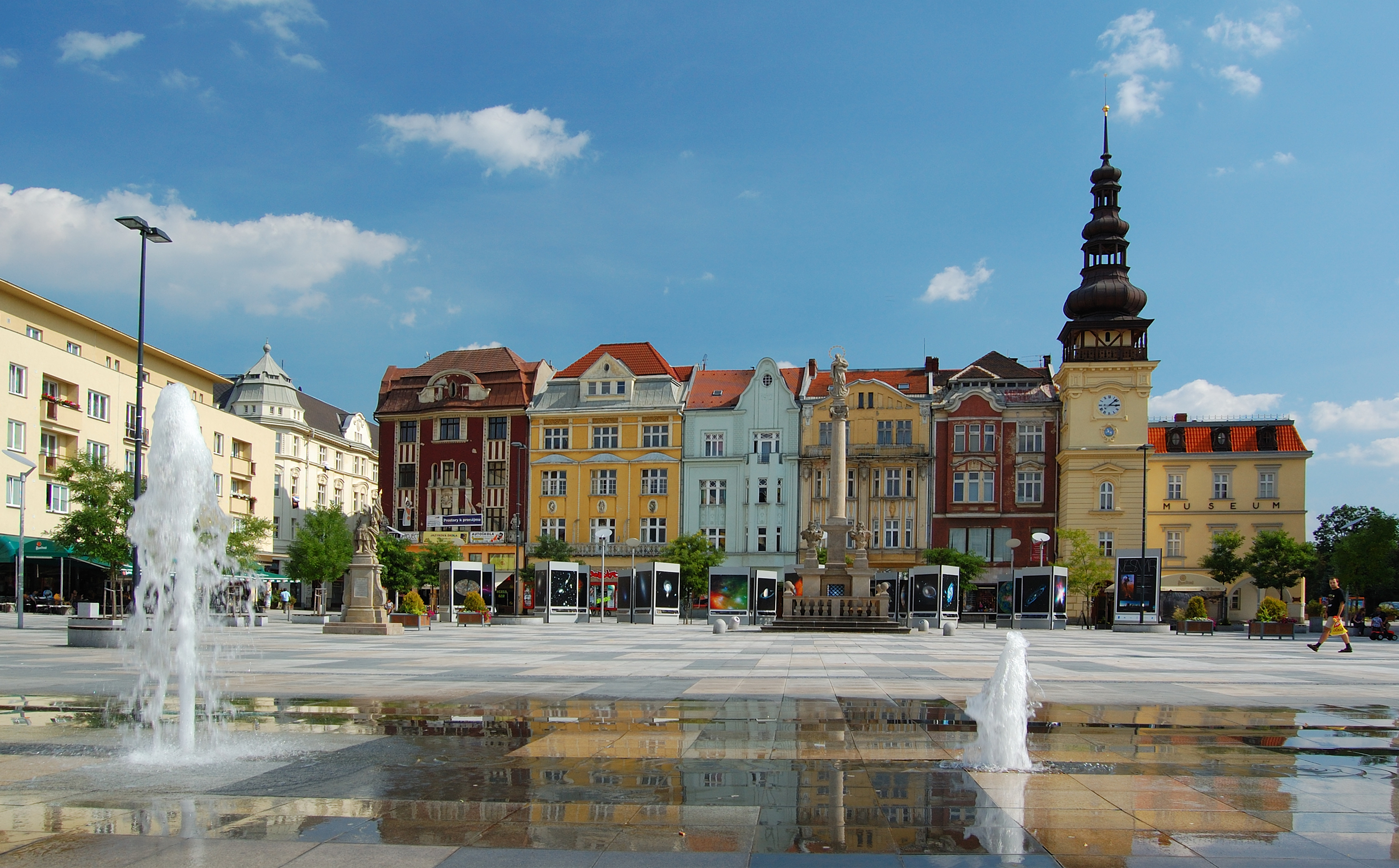 Masaryk Square in Ostrava, Czech Republic.